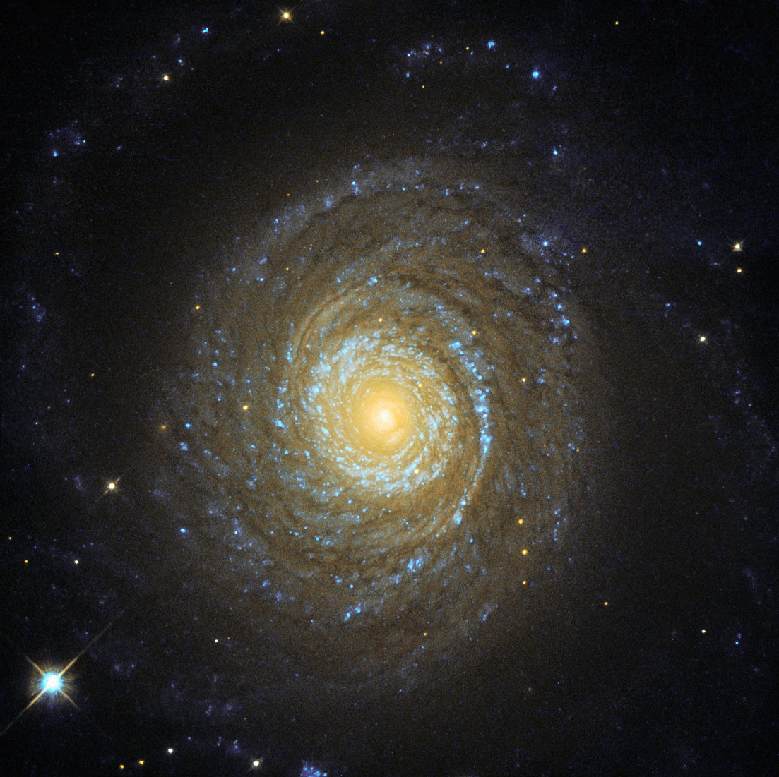 Despite the advances made in past decades, the process of galaxy formation remains an open question in astronomy. Various theories have been suggested, but since galaxies come in all shapes and sizes — including elliptical, spiral, and irregular — no single theory has so far been able to satisfactorily explain the origins of all the galaxies we see throughout the Universe. To determine which formation model is correct (if any), astronomers hunt for the telltale signs of various physical processes. One example of this is galactic coronas, which are huge, invisible regions of hot gas that surround a galaxy’s visible bulk, forming a spheroidal shape. They are so hot that they can be detected by their X-ray emission, far beyond the optical radius of the galaxy. Because they are so wispy, these coronas are extremely difficult to detect. In 2013, astronomers highlighted NGC 6753, imaged here by the NASA/ESA Hubble Space Telescope, as one of only two known spiral galaxies that were both massive enough and close enough to permit detailed observations of their coronas. Of course, NGC 6753 is only close in astronomical terms — the galaxy is nearly 150 million light-years from Earth. NGC 6753 is a whirl of colour in this image — the bursts of blue throughout the spiral arms are regions filled with young stars glowing brightly in ultraviolet light, while redder areas are filled with older stars emitting in the cooler near-infrared.